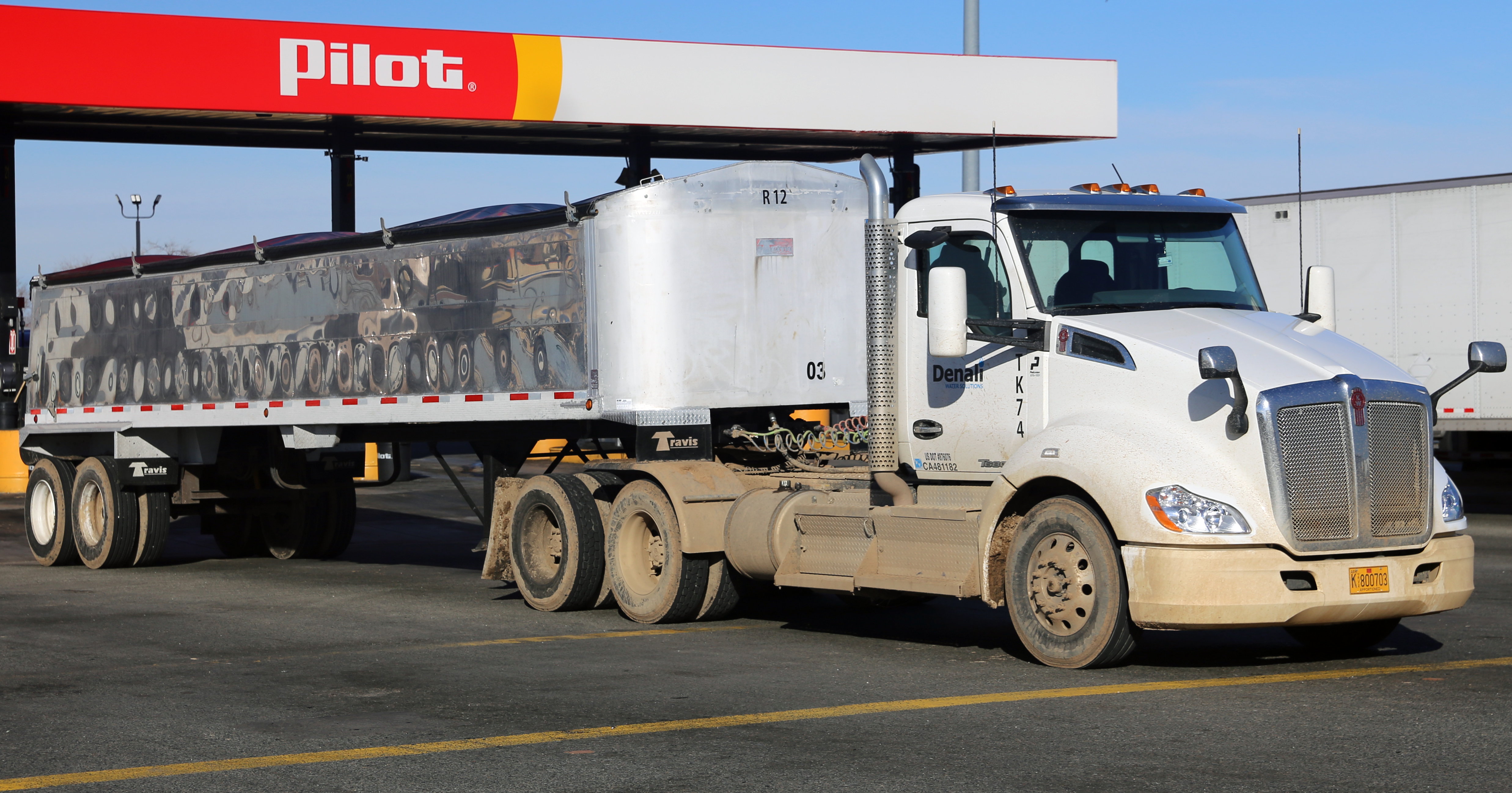 A Kenworth T680 trailer truck at a truck stop in Hesperia, CA.